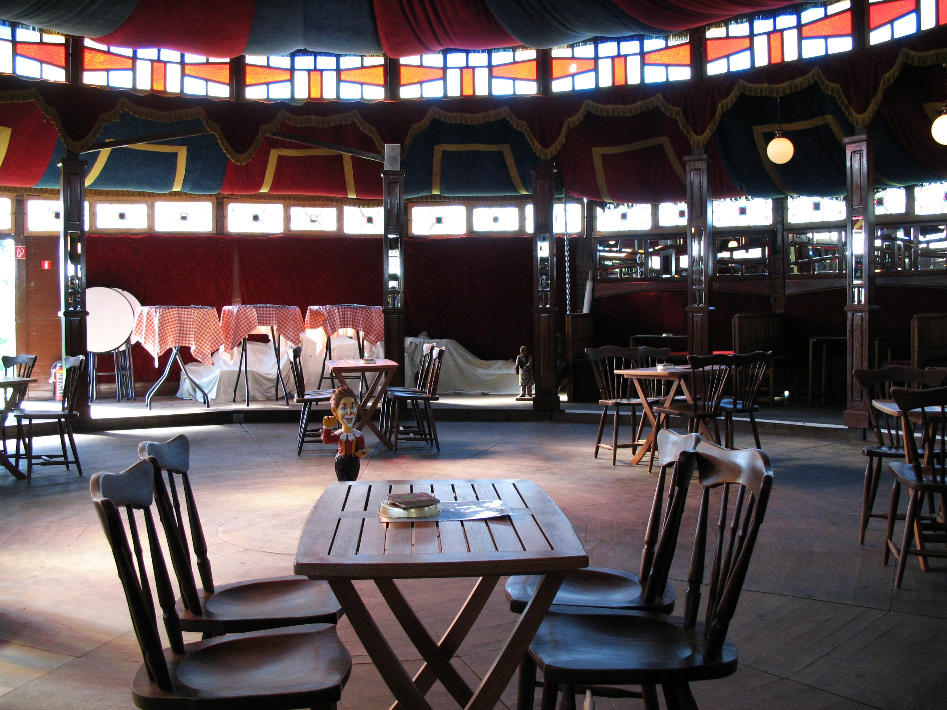 Glimburgercafé’s Spiegeltent at Veerpont Meeswijk-Berg